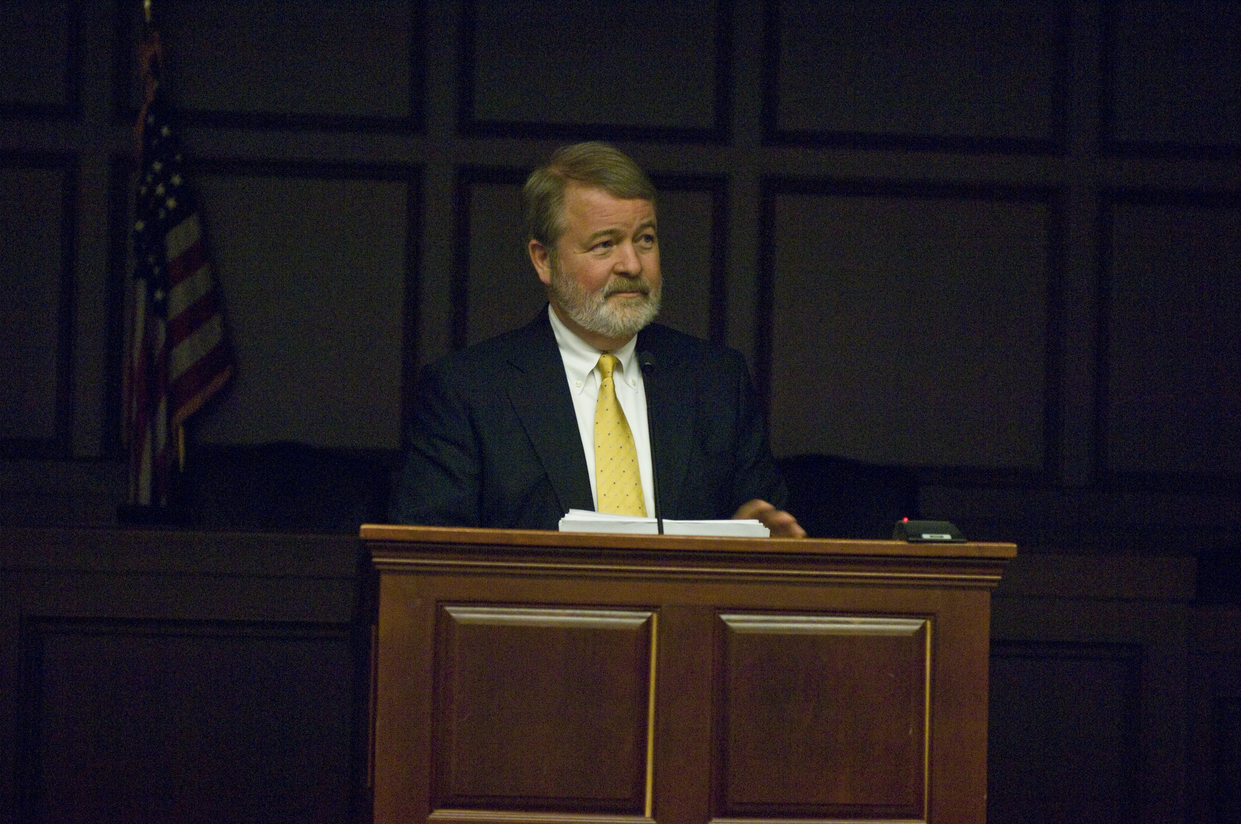 Professor Lombardo giving a lecture on Eugenics.